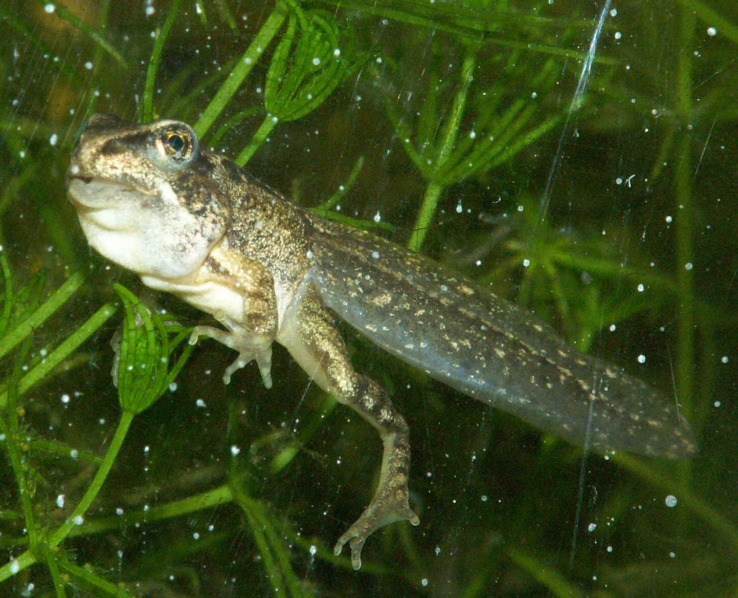 This common frog Rana temporarialarva is almost completely metamorphosed. The shape of the jaw is a bit odd still, as it has changed overnight from the algae-scraping shape to the big frog's mouth. Notice the big eyes and strong legs at this stage, and the remnants of the gill covering that also covered the front legs. Wageningen, The Netherlands Hopefully this pic can be changed soon by one without the spots on the window. I couldn't find other pics on commons to illustrate the awkward mouth shape in this crucial stage of development, probably because it is a very short and dramatic phase in development. Wageningen, The Netherlands